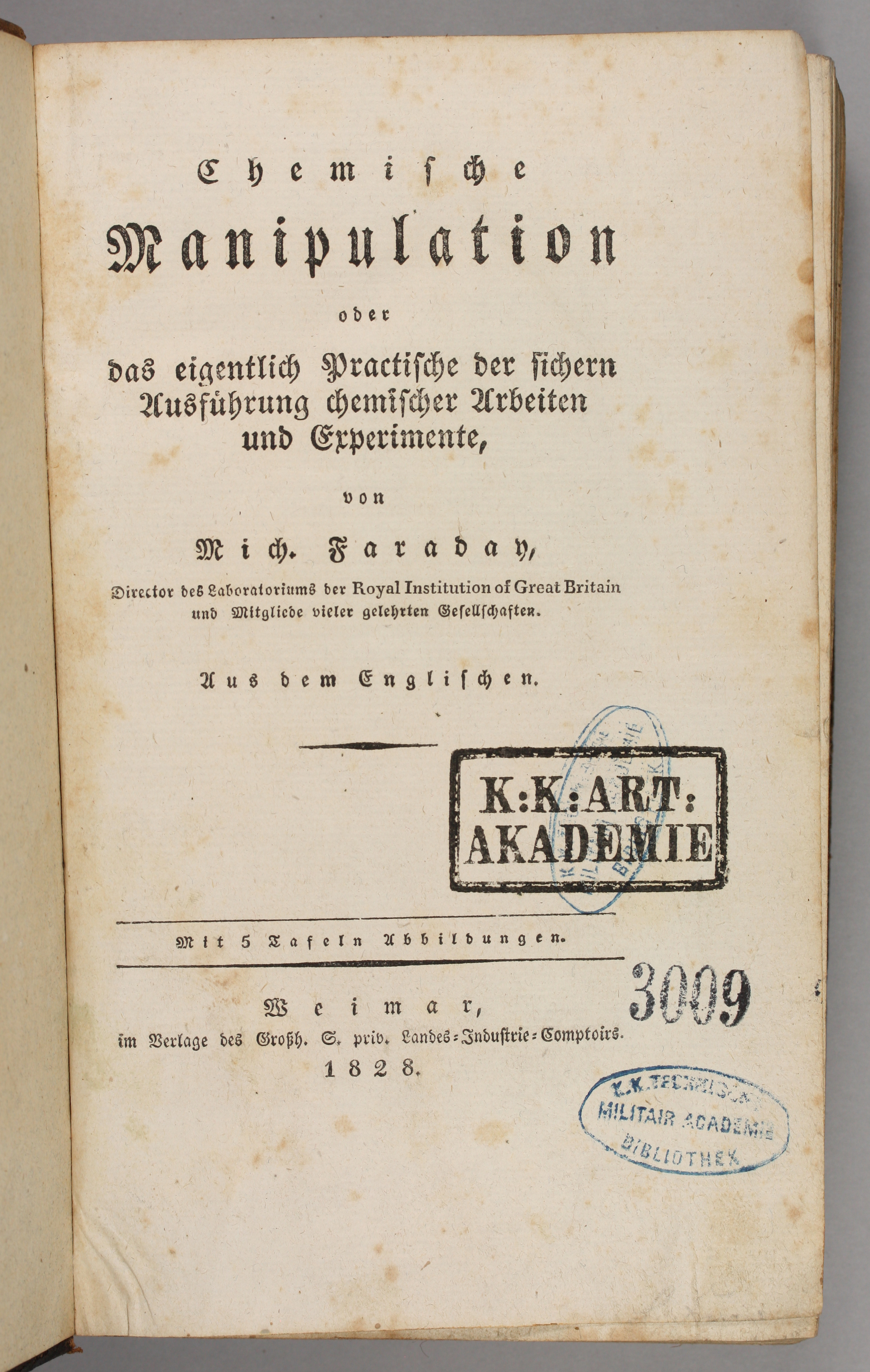 Title page of Chemische Manipulation oder das eigentlich Practische der sichern Ausführung chemischer Arbeiten und Experimente / von Mich. Faraday. Weimar : Im Verlage des grossh. S. priv. Landes-Industrie-Comptoirs, 1828. Faraday’s textbook Chemical Manipulation, of which this is a German edition, was the only work that he intentionally wrote as a full-length book.